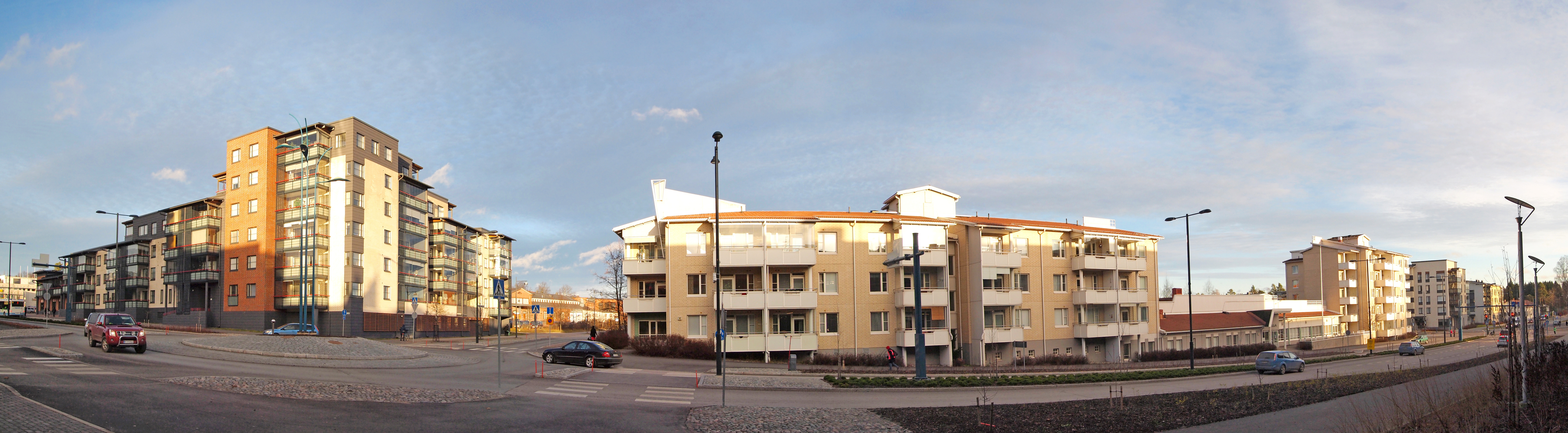 Panoramic view of the street Torikatu in Hyvinkää. This photograph was taken with a Olympus E-PL1.